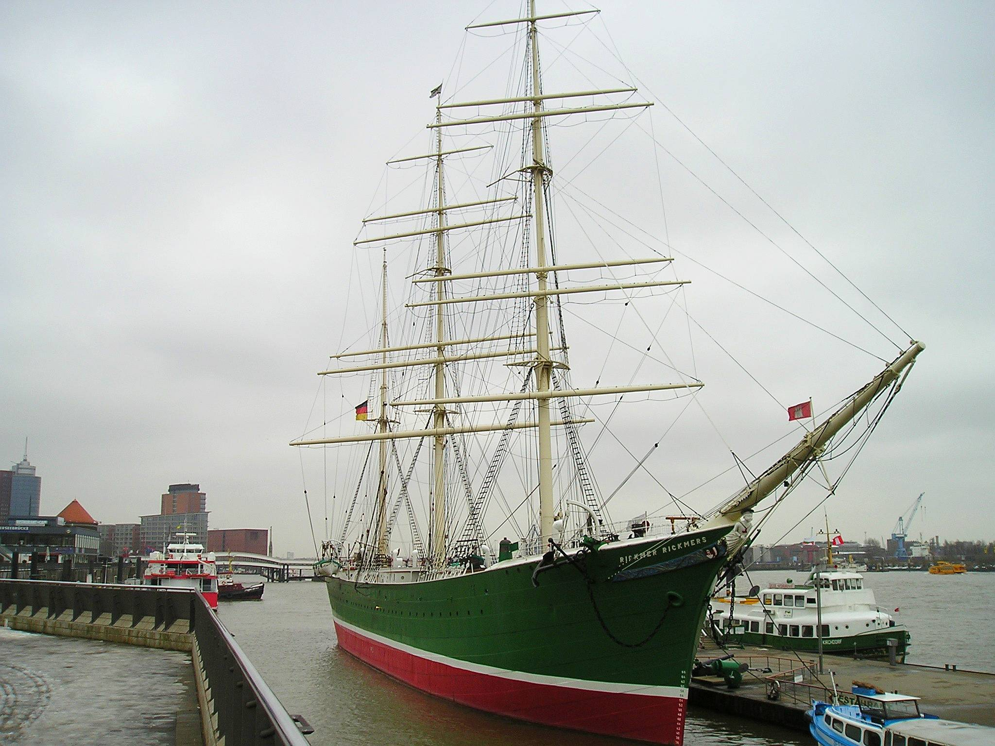 The Rickmer Rickmers is a museum ship in Hamburg port.